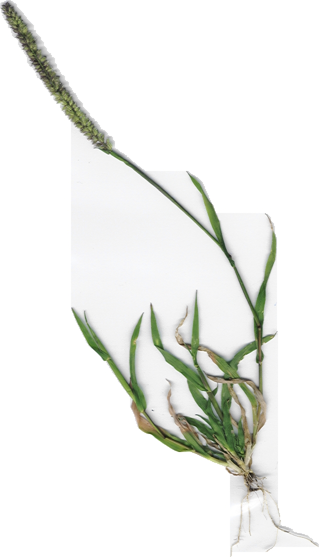 Tragus berteronianus (plant). Location: Maui, Waikapu